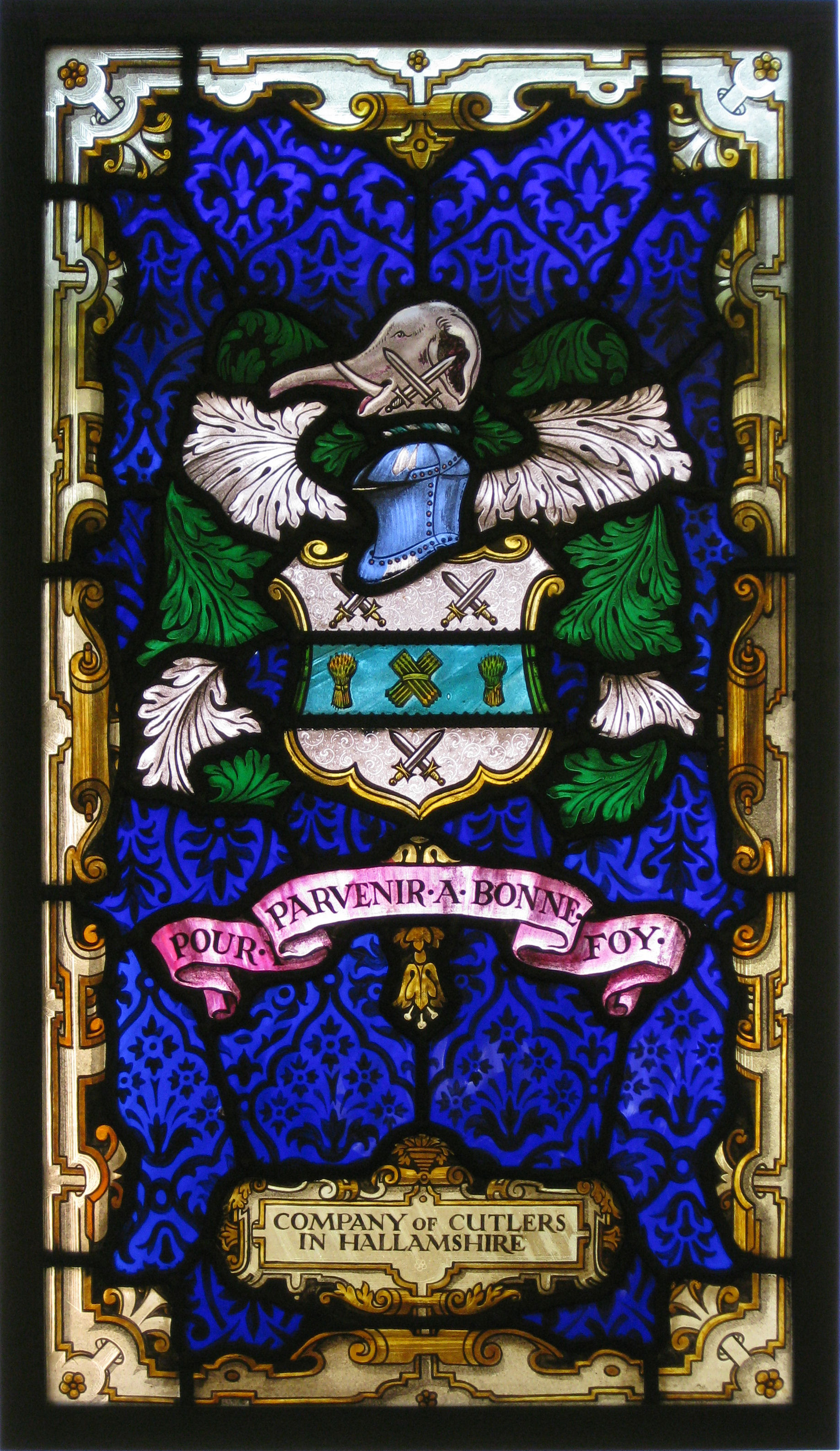 Stained glass window, Cutlers Hall, Sheffield, nineteenth century, artist unknown. Showing the arms and motto of the Company of Cutlers in Hallamshire